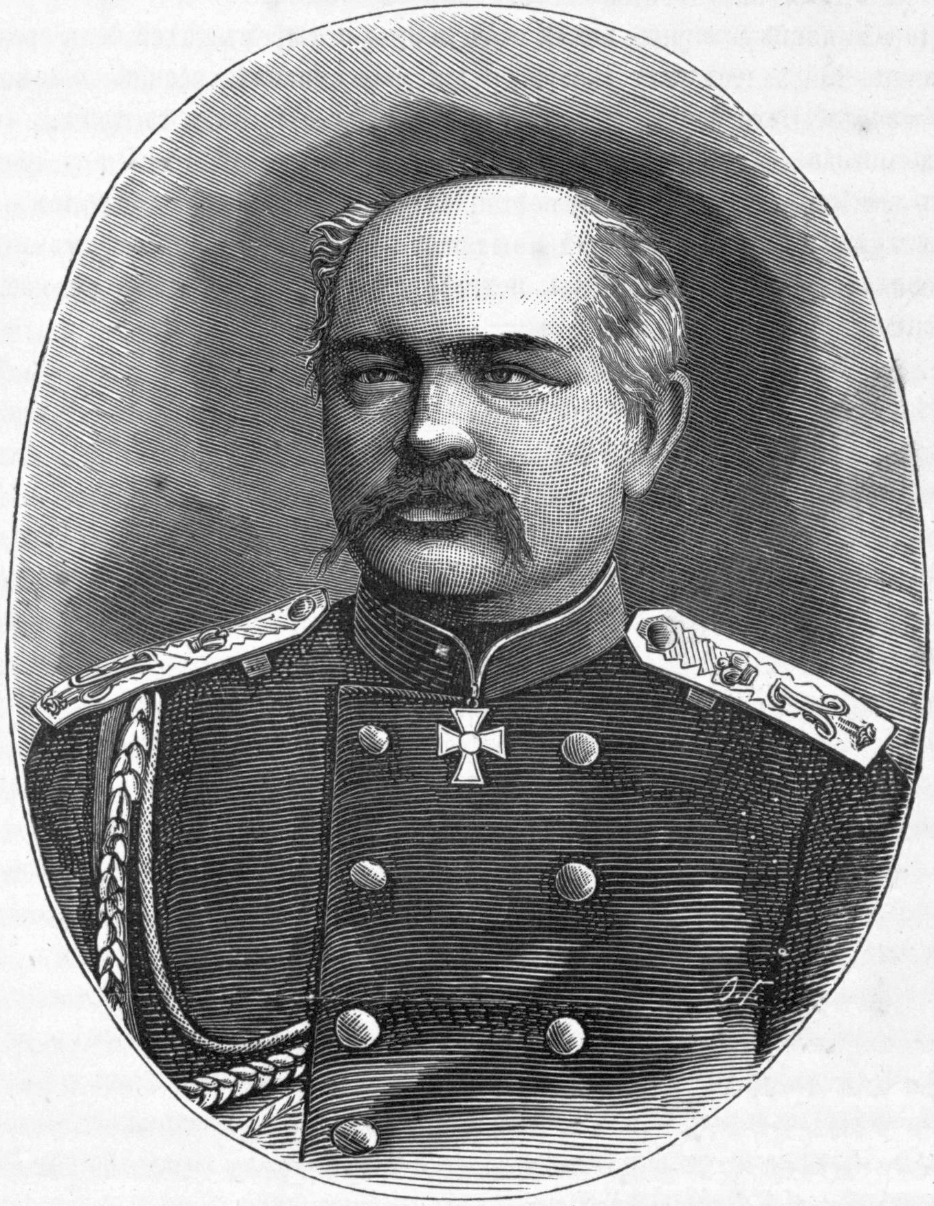 Mikhail Dragomirov